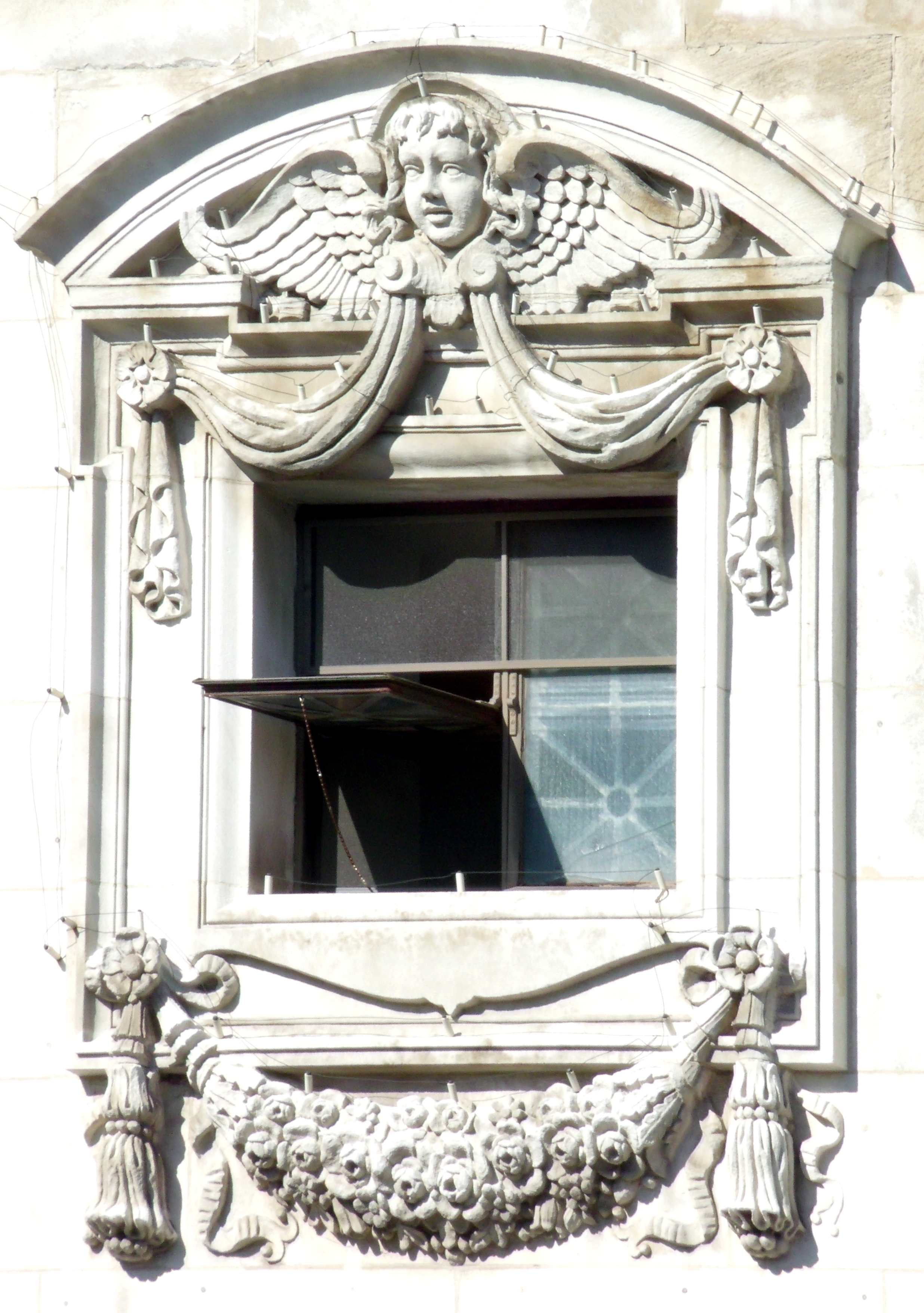 An ornate window on the south façade of Immaculate Conception church in the Downtown Waterbury Historic District